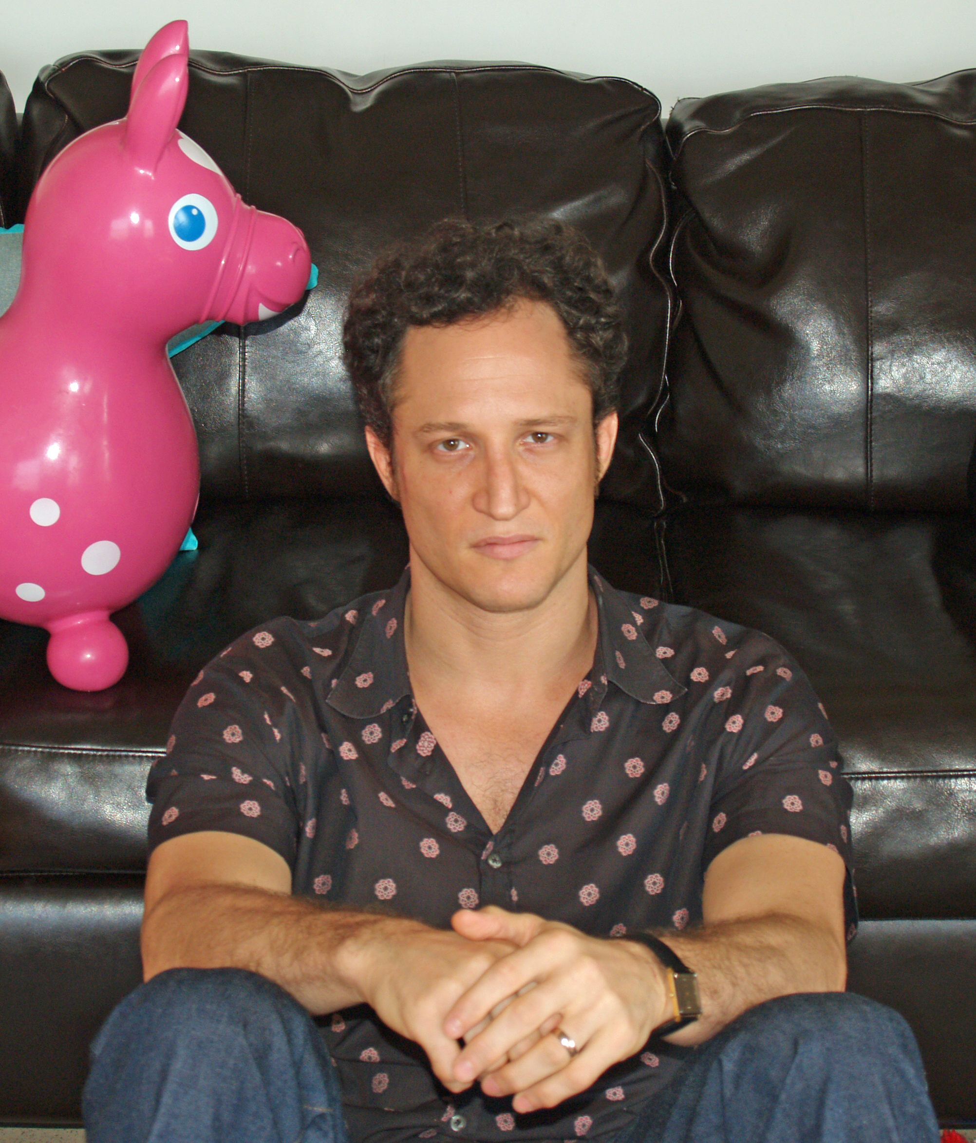 John Reed by David Shankbone